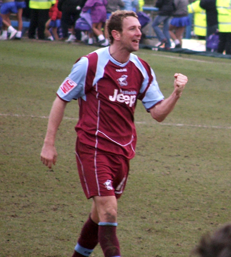 Ian Baraclough celebrates after a hard-earned away victory.